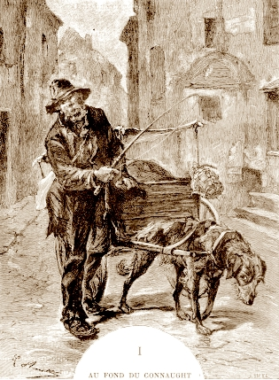 An illustration from Jules Verne's novel "Foundling Mick" (or "A Lad of Grit"). Česky: Původní ilustrace Léona Benetta k Vernově knize